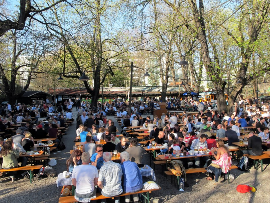 Munich, suburb "Maxvorstadt", Beer Garden "Augustiner"